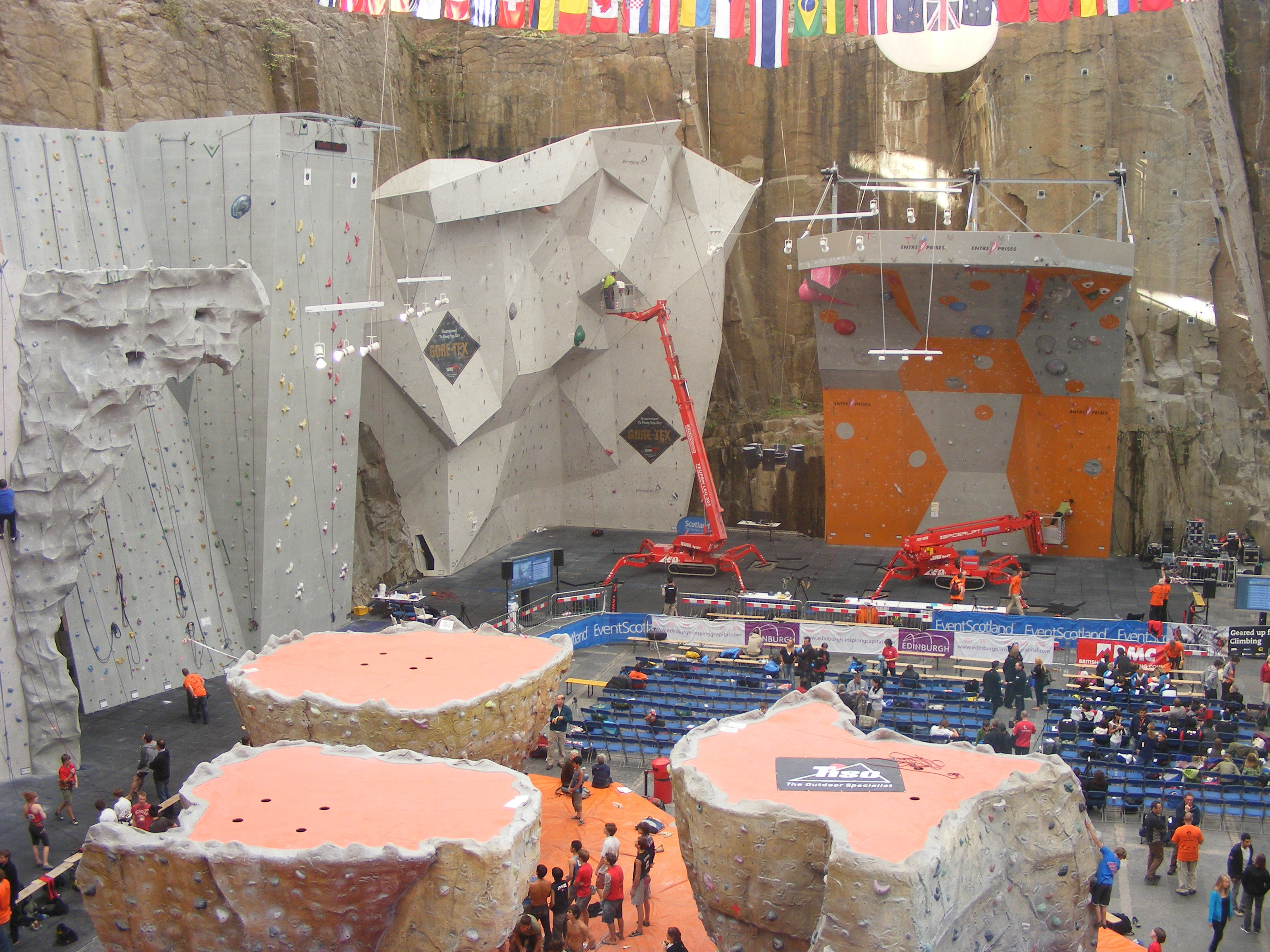 Interior shot of Edinburgh International Climbing Arena. Ratho, near Edinburgh, Scotland.